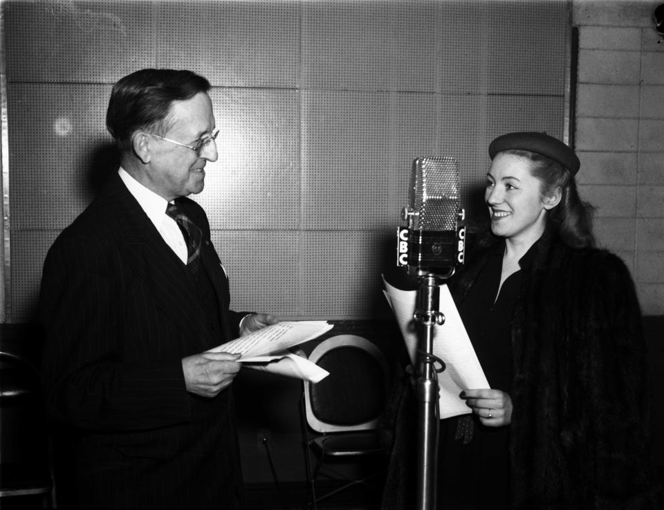 Soprano Pierrette Alarie speaking before a microphone to Leopold Houle, director of public relations at the radio station CBC (Radio-Canada) in Montreal.